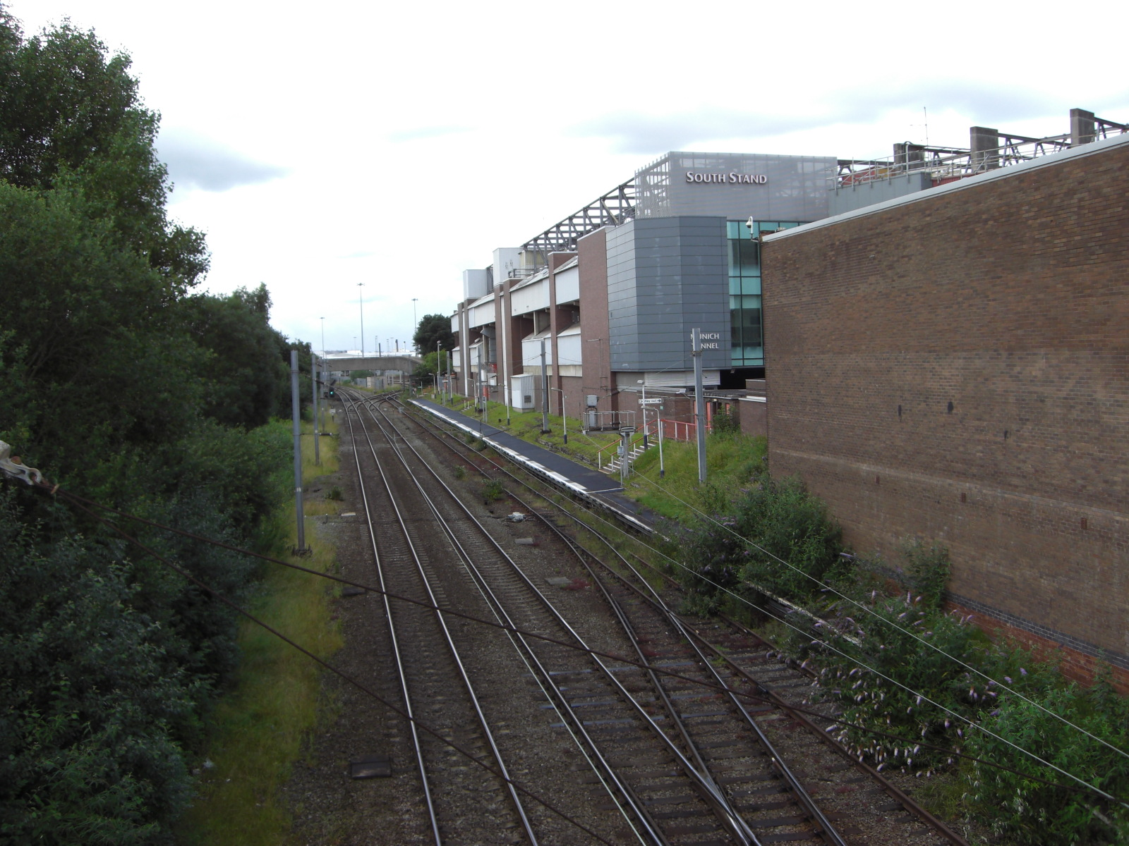 Manchester United Halt Railway station just next to the south stand at Old Trafford. Photo taken on 07/07/2009